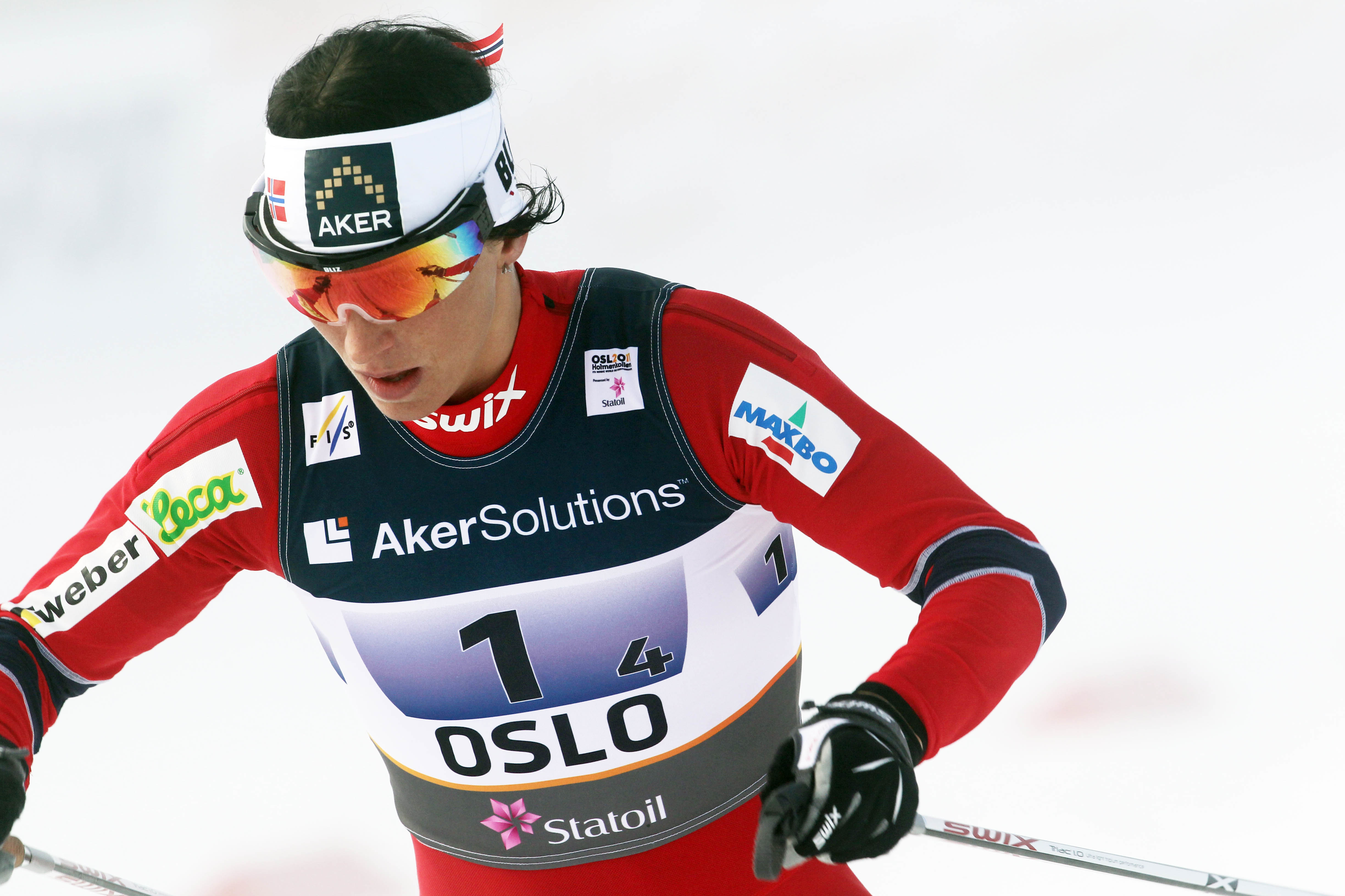 Marit Bjørgen skiing the last leg or Norway of the Women's 4 x 5 km relay at the 2011 FIS Nordic World Ski Championships in Oslo, Norway.